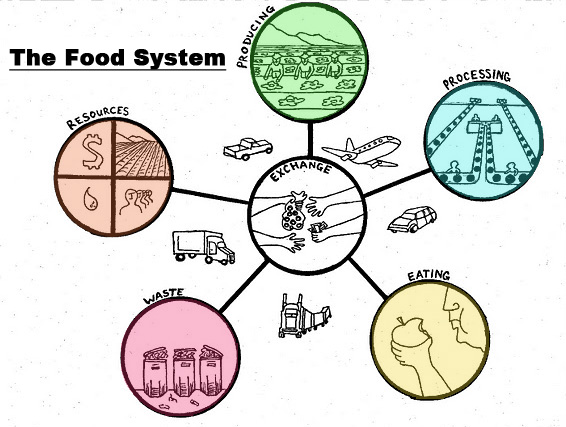 A model of the food system